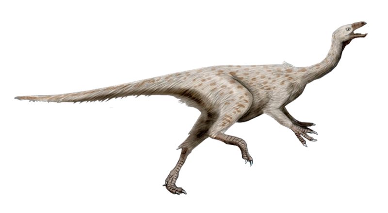 Beishanlong grandis, Early Cretaceous of China. Digital.